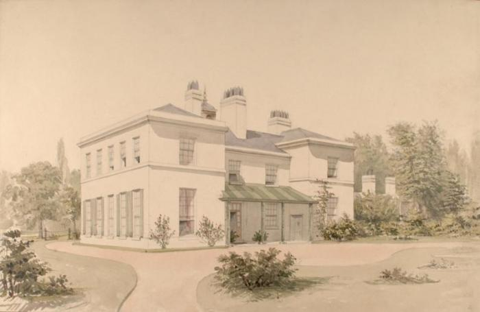 Heathfield Hall, Handsworth, the home of James Watt.